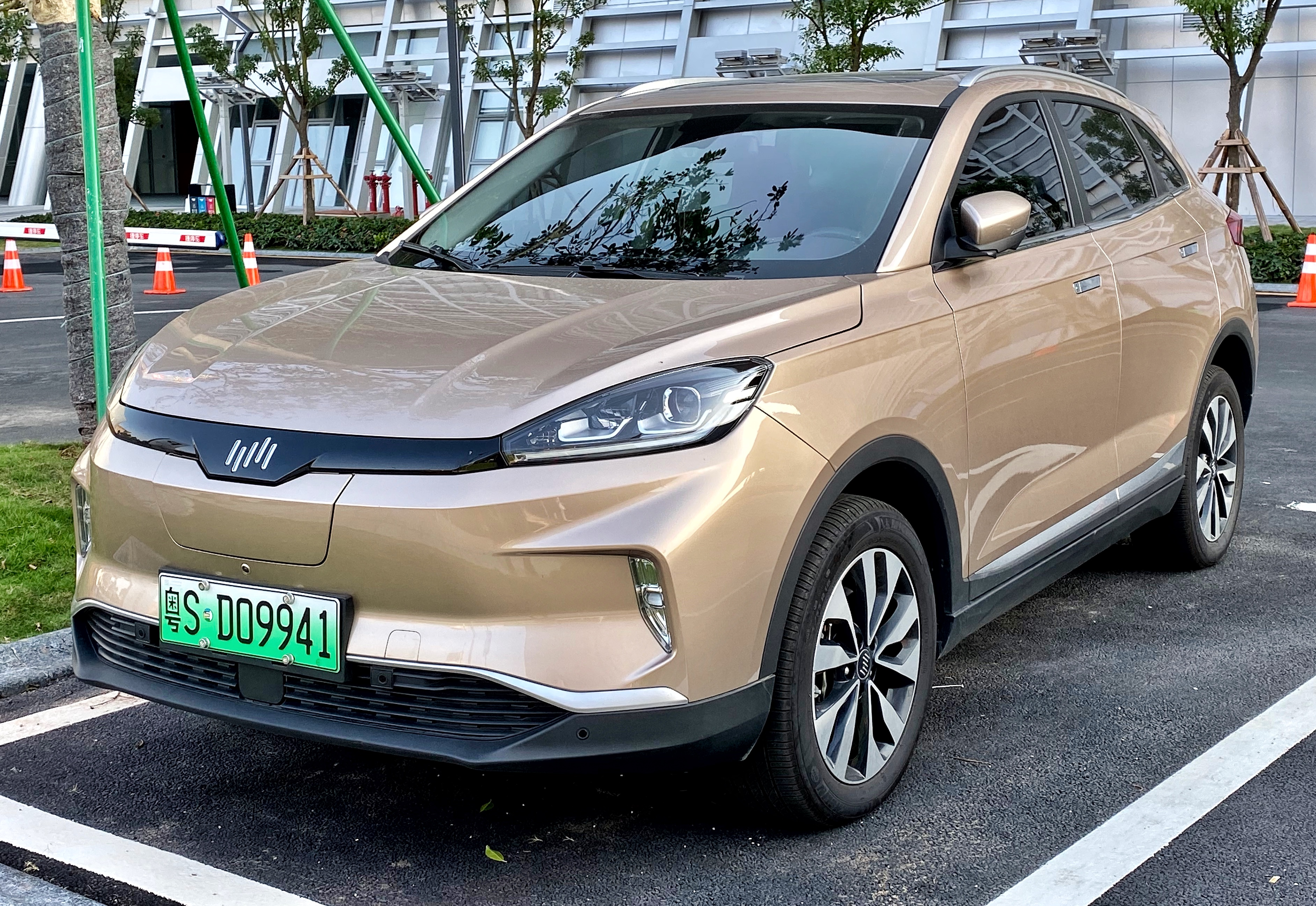 A 2019 Weltmeister EX5 photographed in Dongguan, Guangdong province, China. 中文（中国大陆）: 一辆2019年的威马EX5，拍摄于中国广东省东莞市。